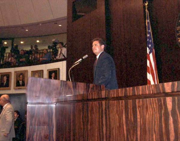 Florida State Senator Alberto Gutman addressing his colleagues in the Senate chamber during the 1994 Legislative Session - Tallahassee, Florida